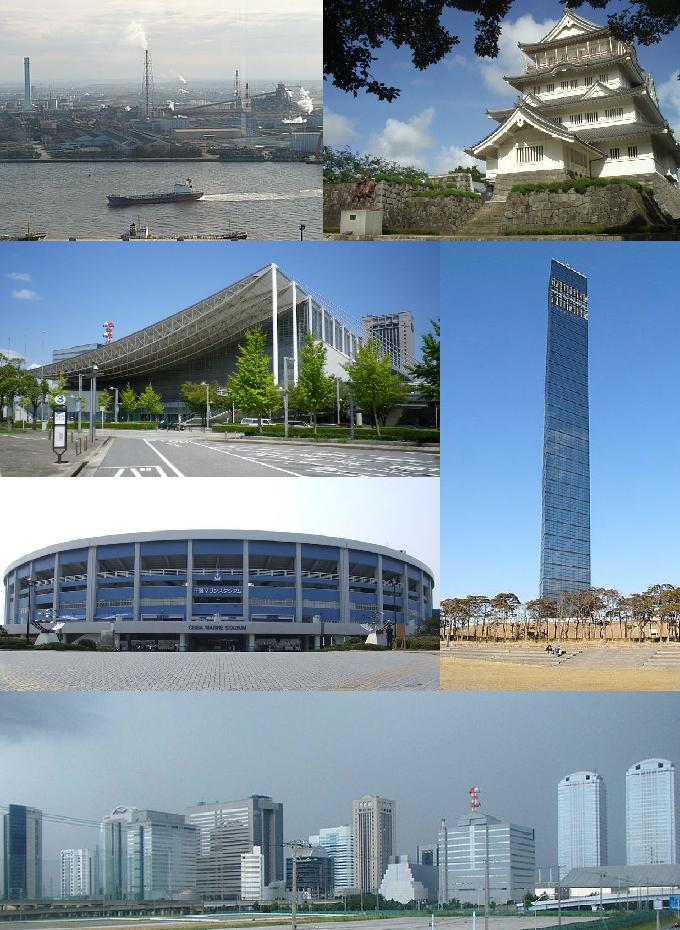 From top left: JFE Steel Chiba Factory, Chiba Folk Museum, Makuhari Messe, Port Tower, Chiba Marine Stadium, Skyscrapers of Makuhari